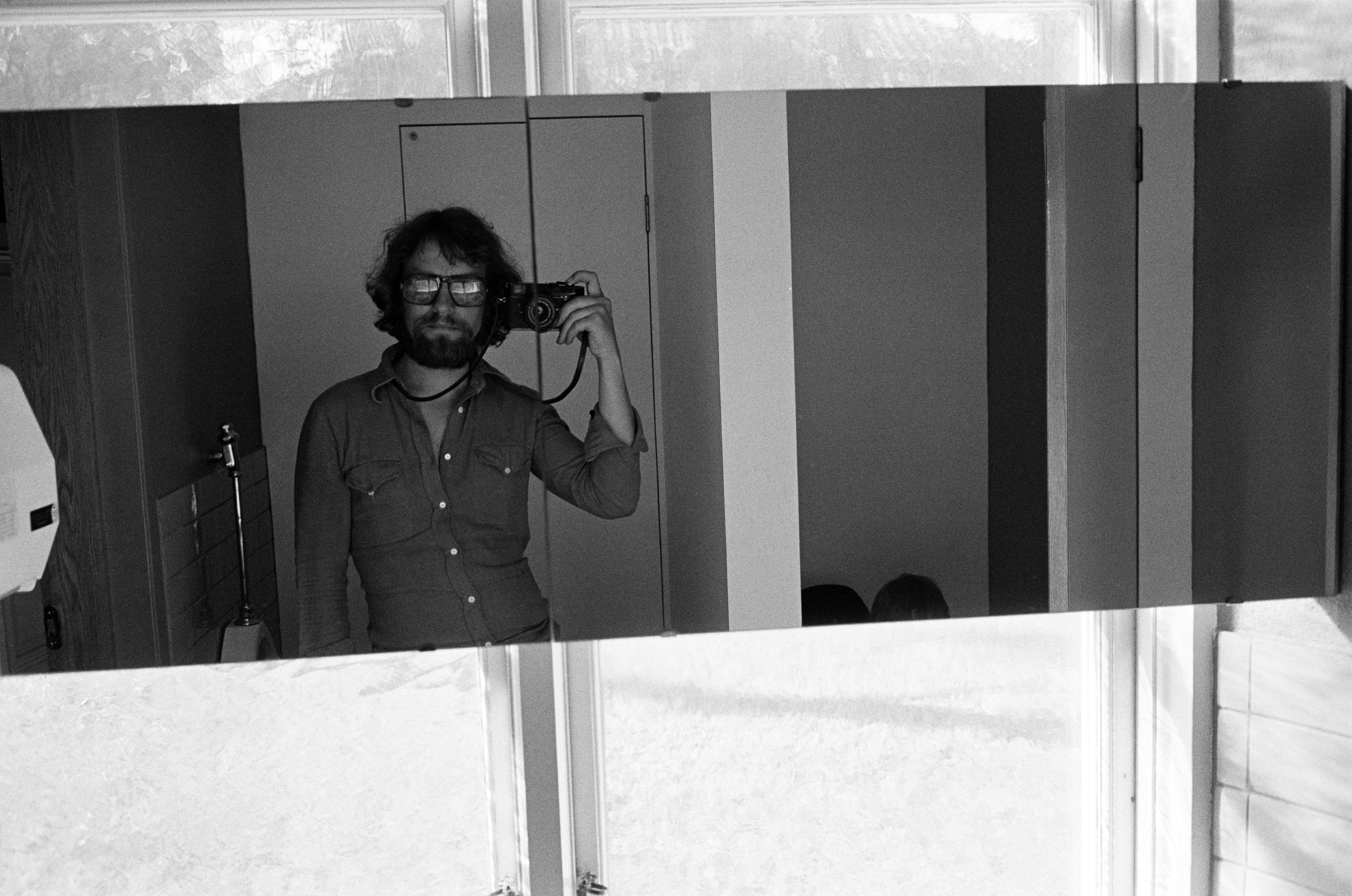 Self-portrait of the Finnish photographer Kari Hakli (1940–).